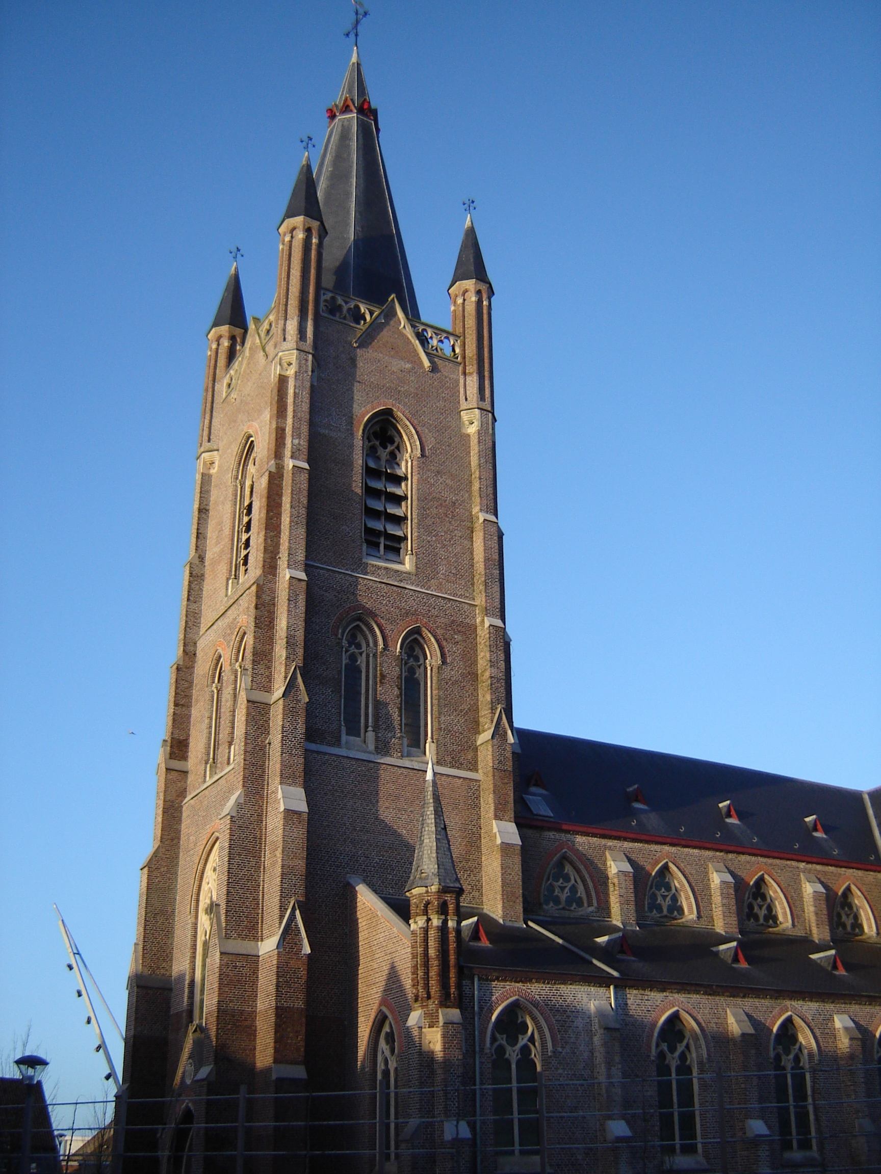 Church of Our Lady in Leffinge, in Middelkerke, West Flanders, Belgium